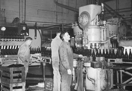 Black and white photo of a bottling machine in operation as part of an Australian beer production operation.